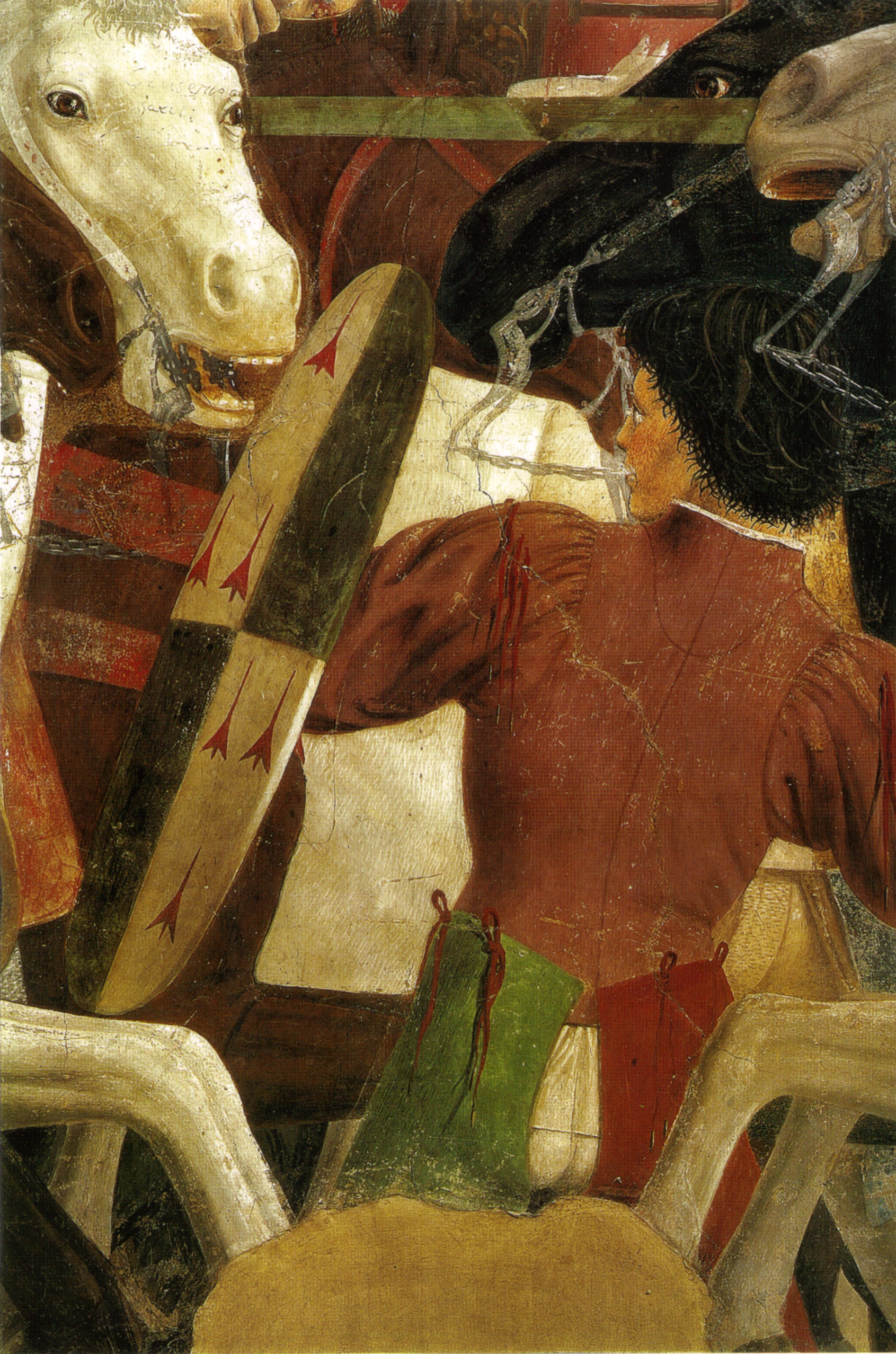 PIERO della FRANCESCA Battle between Heraclius and Chosroes Fresco, 329 x 747 cm San Francesco, Arezzo